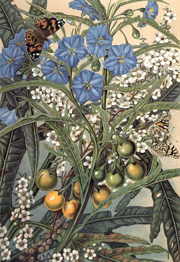 Kangaroo Apple - Coloured lithographic print from "Bush friends in Tasmania"